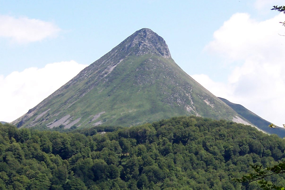 Puy Griou